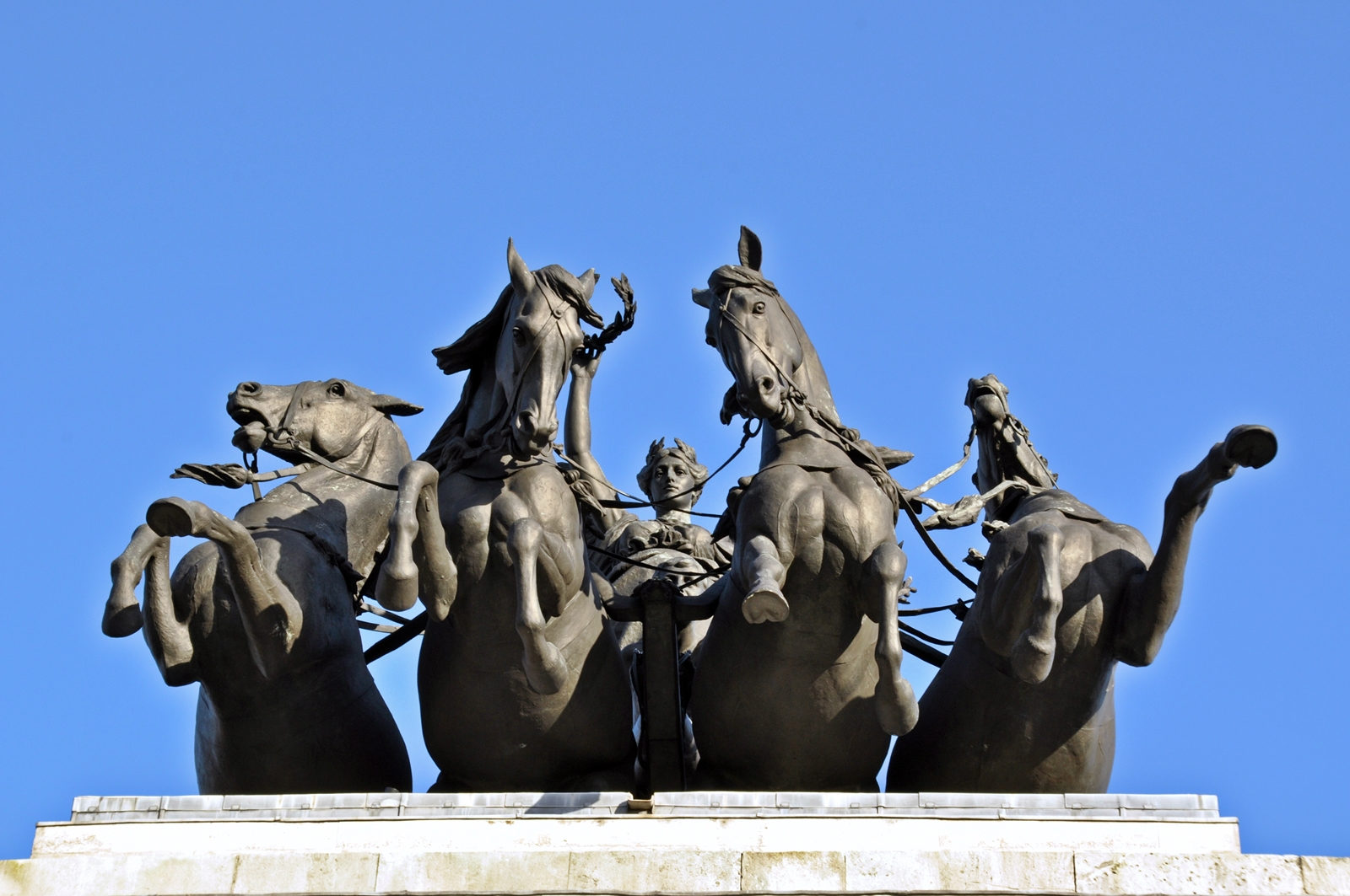 Bronze quadriga on Wellington Arch, London